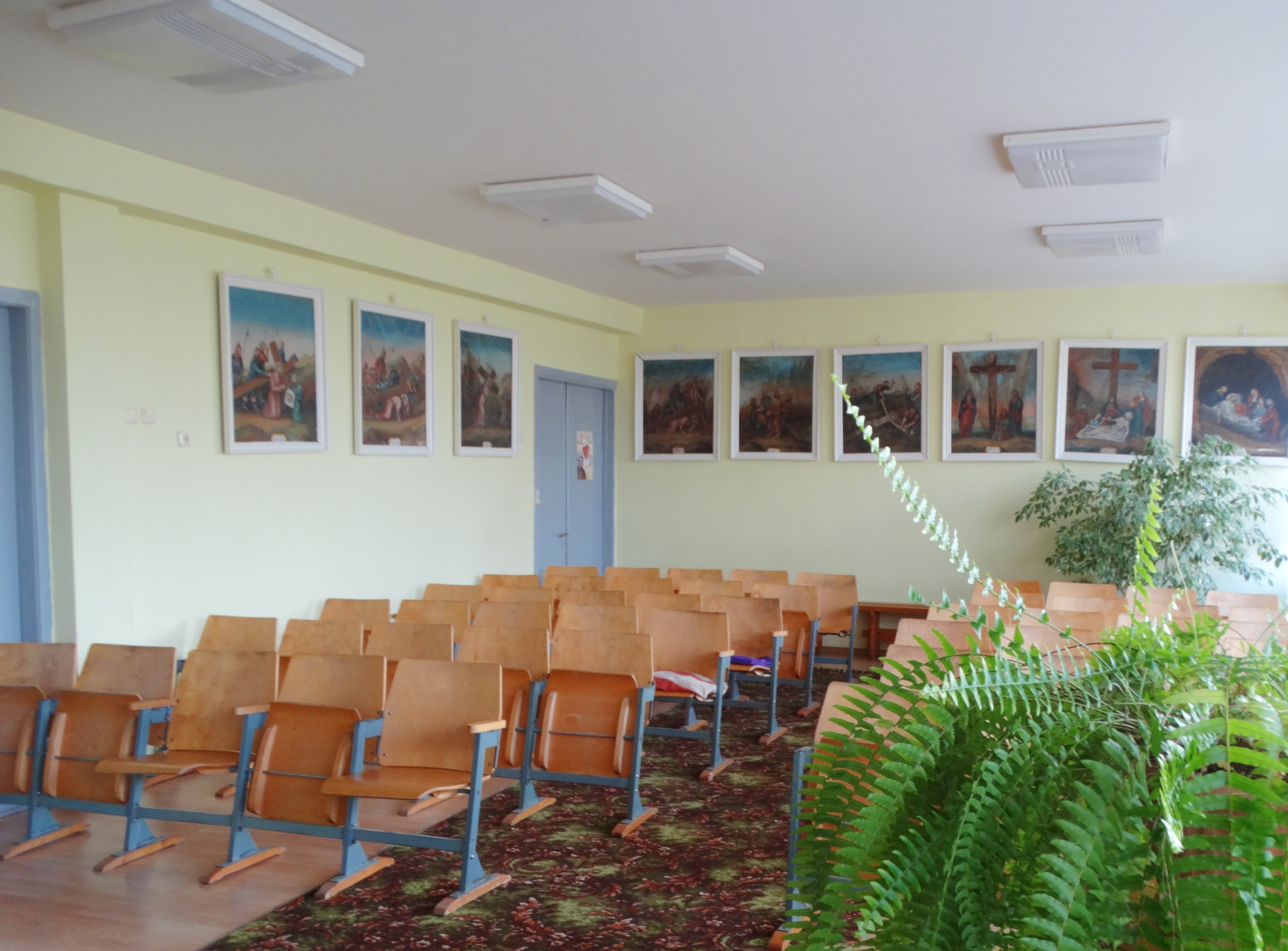 Žadeikiai, chapel, Šilalė District, Lithuania